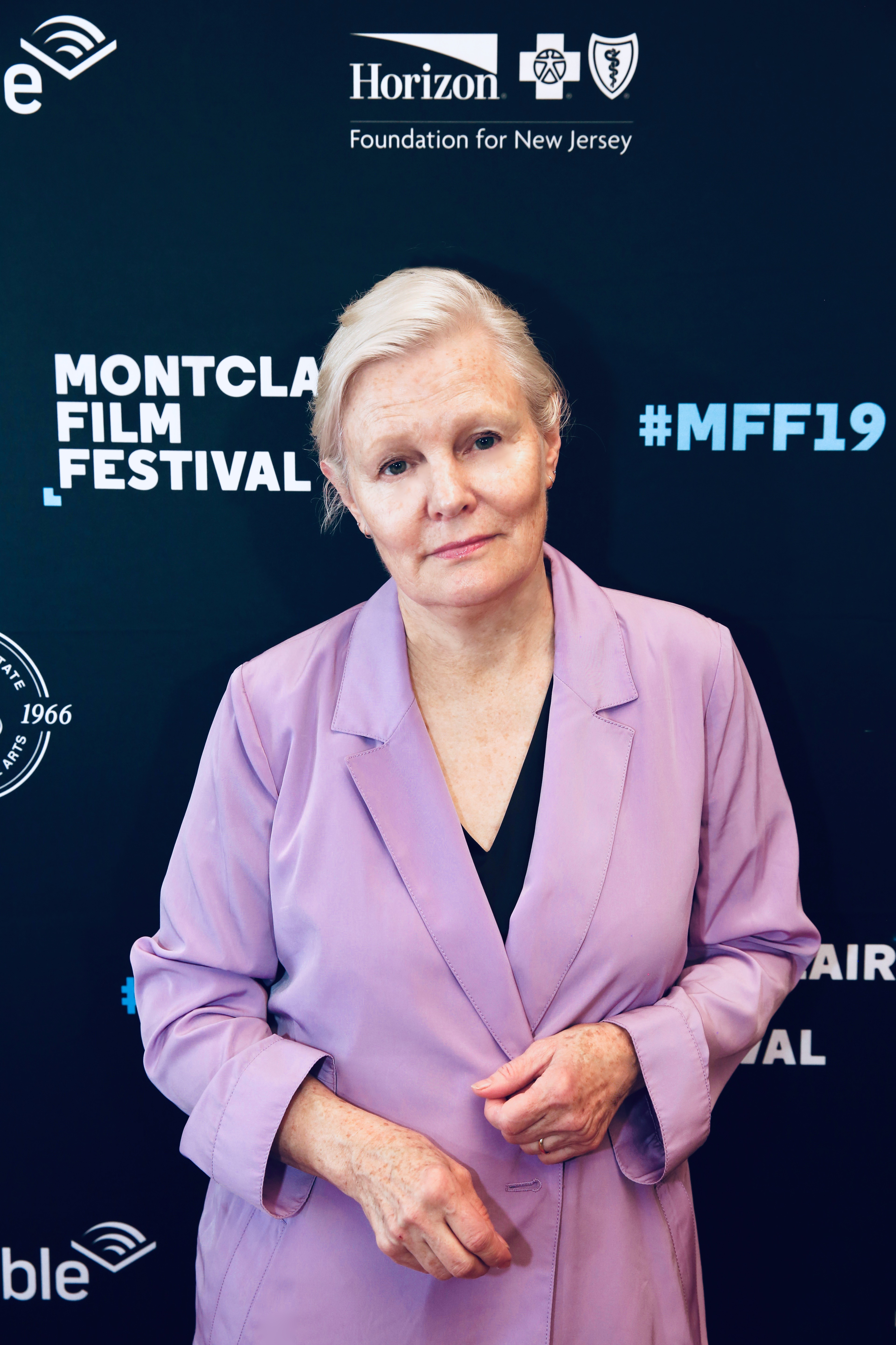 Photography by Frank Schramm